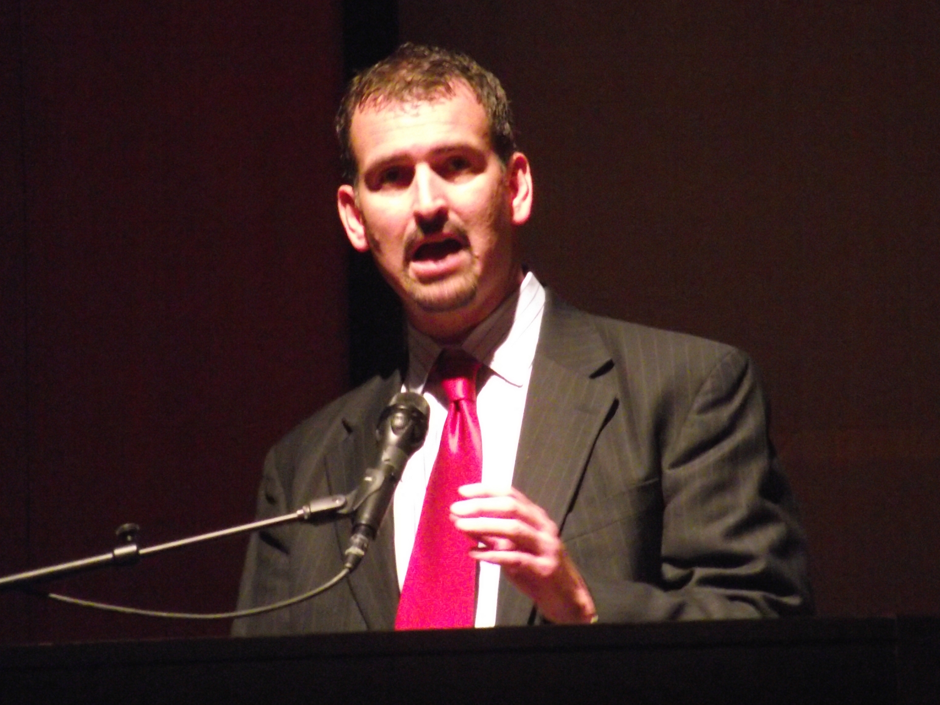 Mack Rhoades, athletics director at the University of Houston speaking during the announcement of the university joining the Big East Conference